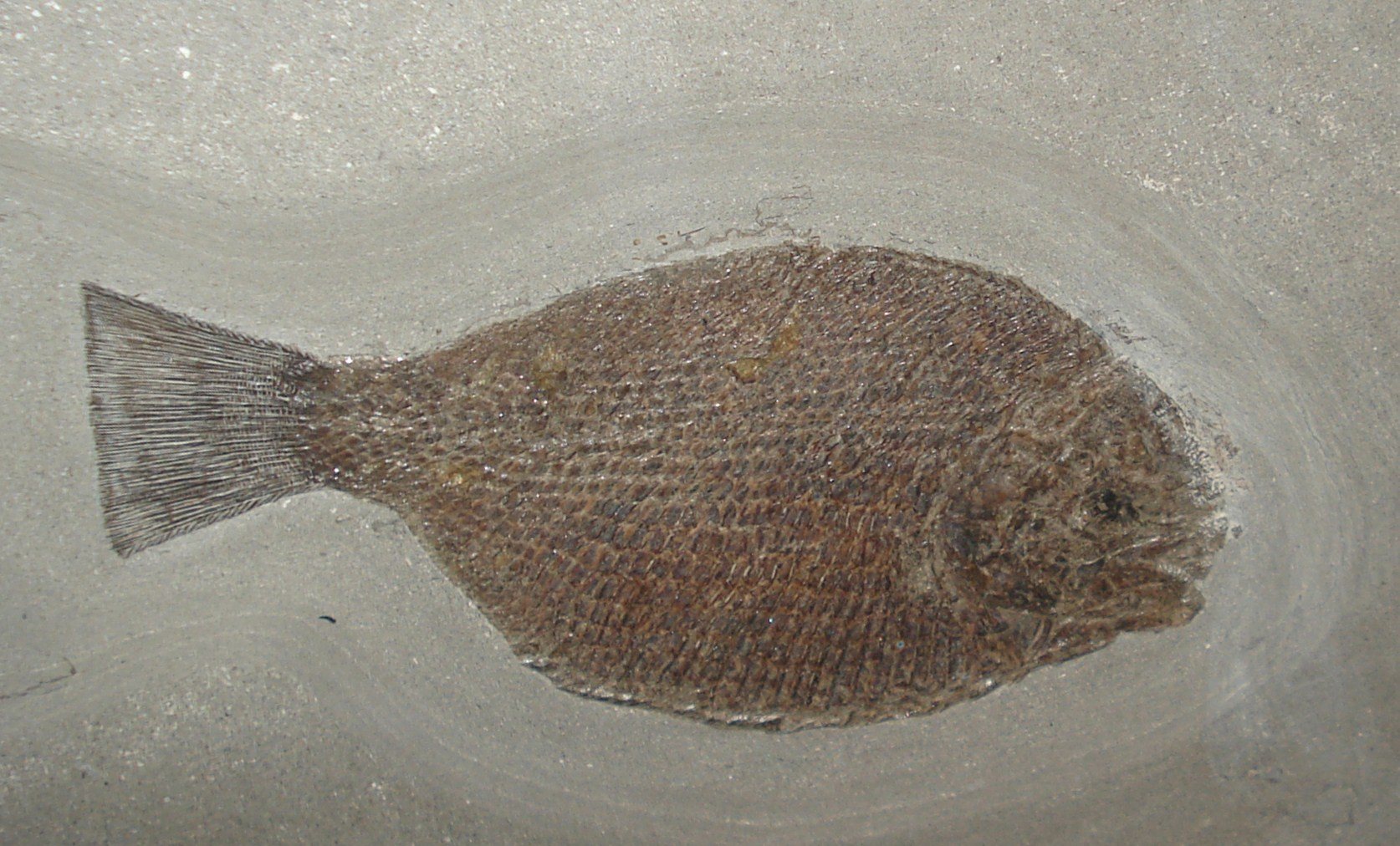 fossil of dapedium